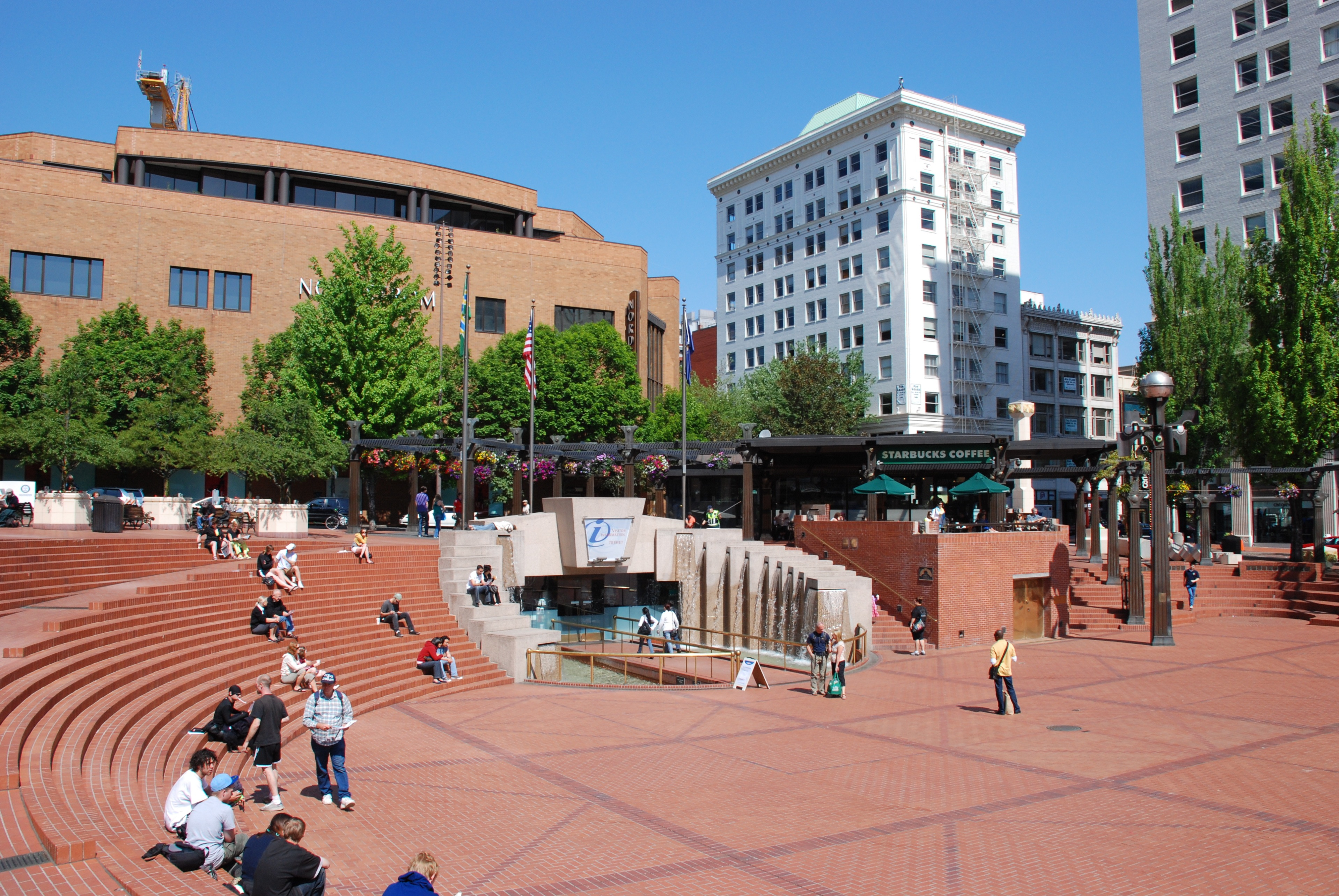 Pioneer Courthouse Square, in Portland, Oregon, United States. This view is looking northwestwards and shows the west half of the square, on a sunny spring day.